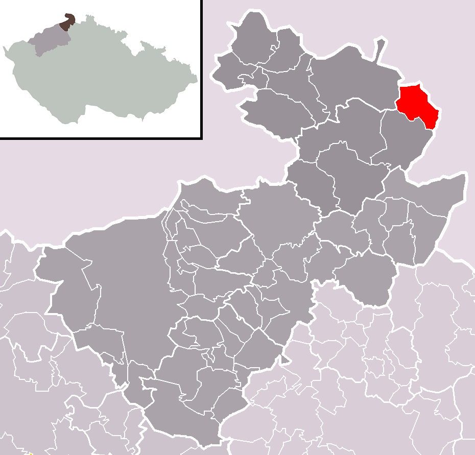 Location of Jiříkov town within Děčín District and administrative area of Rumburk as a Municipality with Extended Competence.